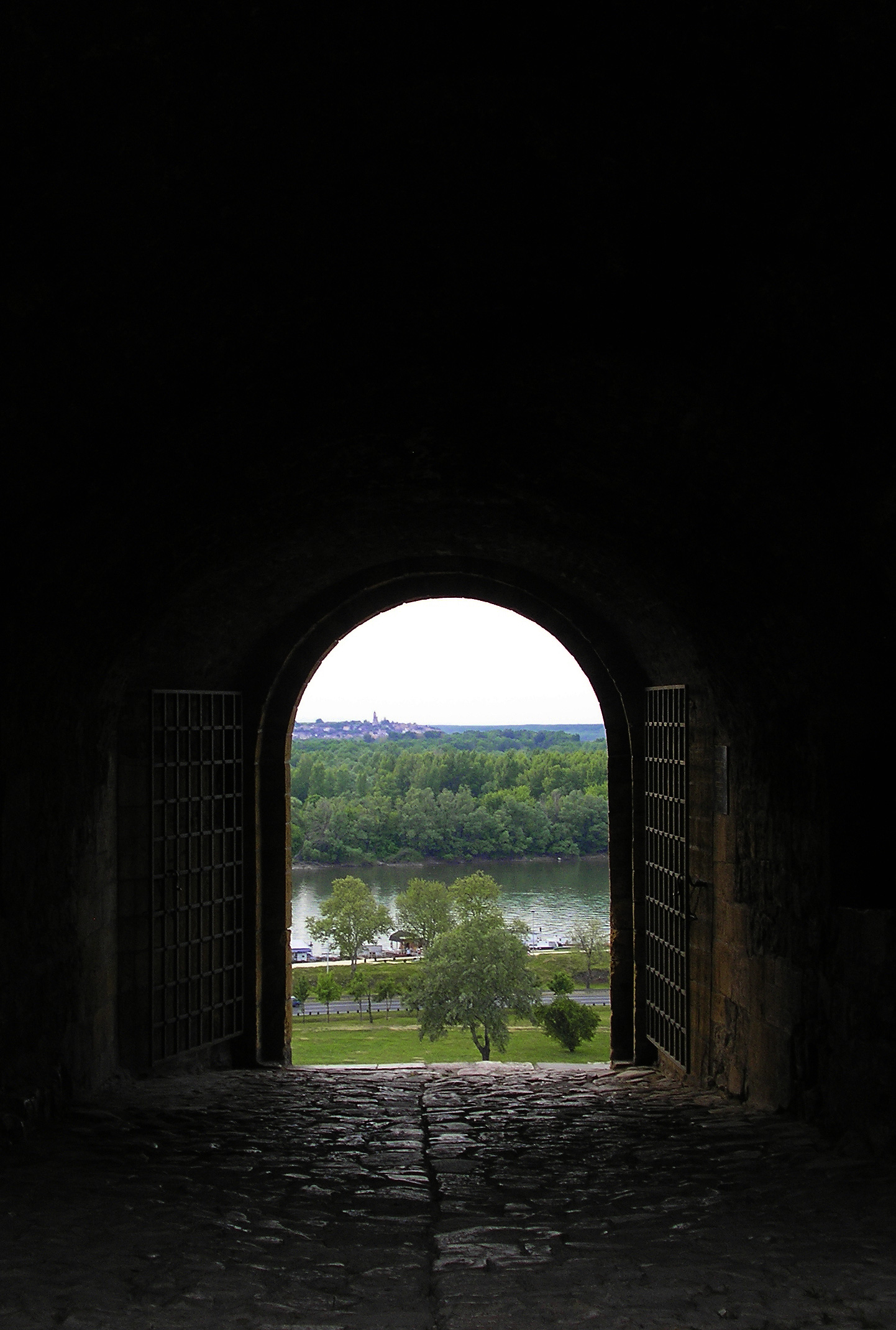 Side gate to the Kalemegdan fortress with sight of Big War island (forrested island across waters).